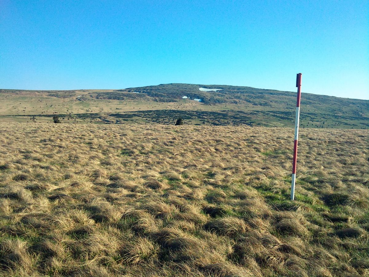 Summit of Stříbrné návrší close to Luční bouda in the Giant mountains.